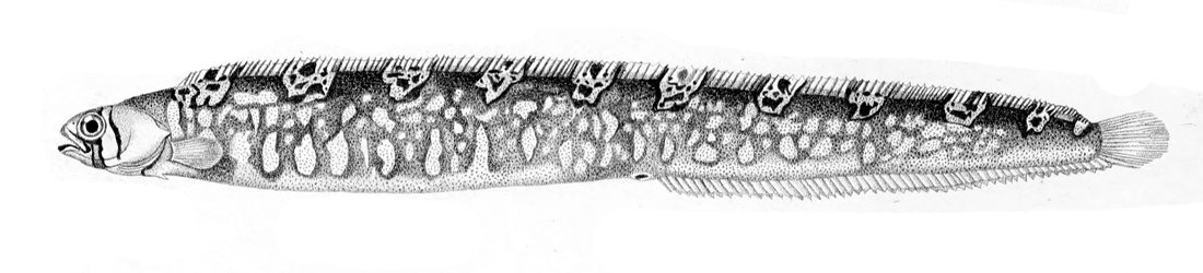 Pholis fasciata